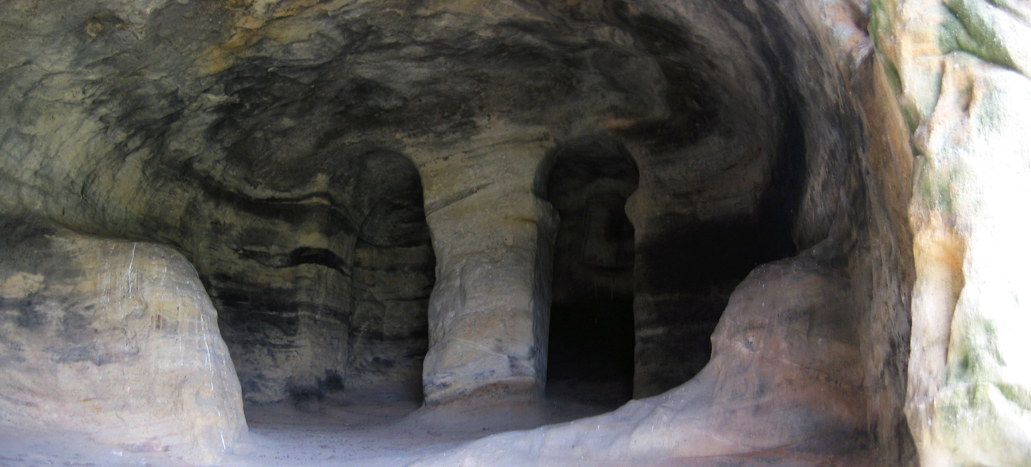 The rock Chapel of San Pelayo was excavated by the hand of the man in a sandstone Ridge near the bottom of the Valley. It is a single nave, which is separated from the header by a small wall partially preserved. The picture shows the header of the temple, which is divided into two rooms between them, but accessed through two similar to the horseshoe arches. At the bottom of the header, behind the arches, two small altars in niche with its corresponding hollows to save relics or liturgical objects. A 1155 document already mentioned this place like San Pelayo cave.